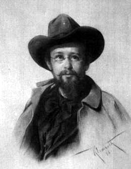 The portrait of German music critic Ferdinand Pfohl (1862—1949)